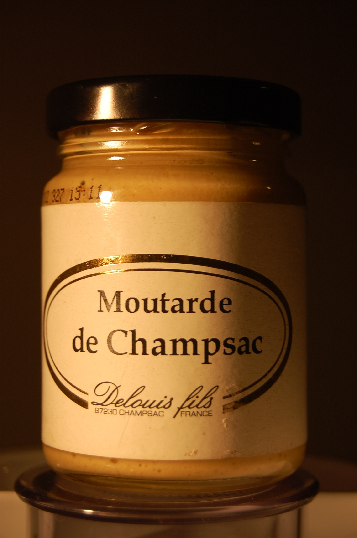 Mustard from the city of Champsac, near Châlus ( Limousin, France)